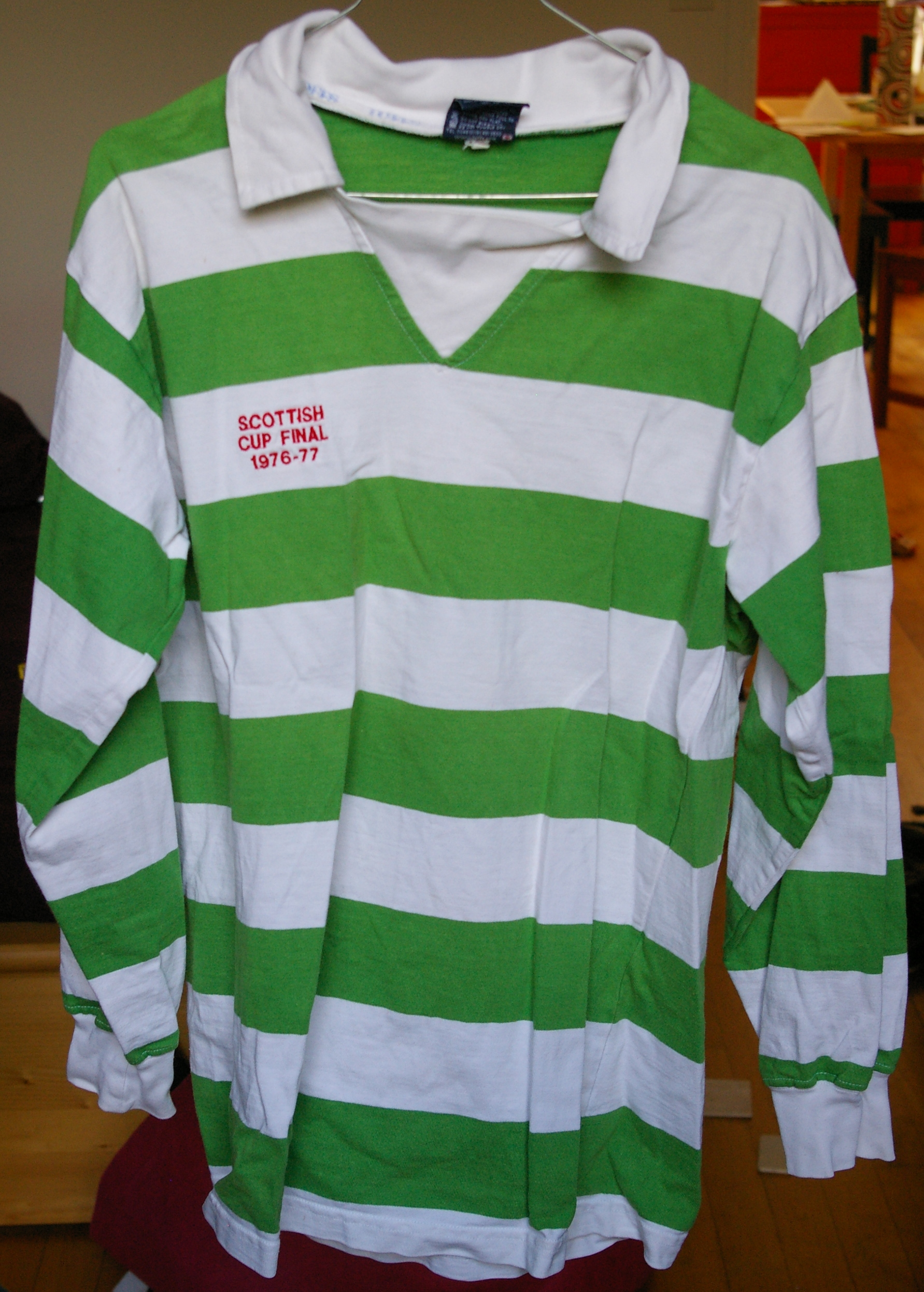 reproduction of 1977 shirt of Celtic F.C.